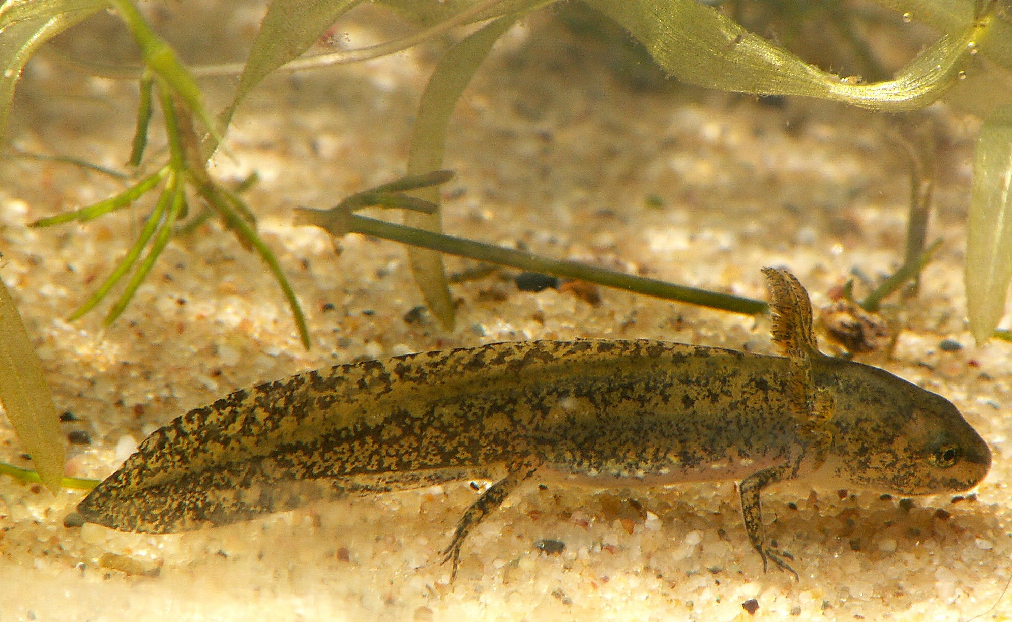 Mestotriton alpestris larva Wolfheze The Netherlands